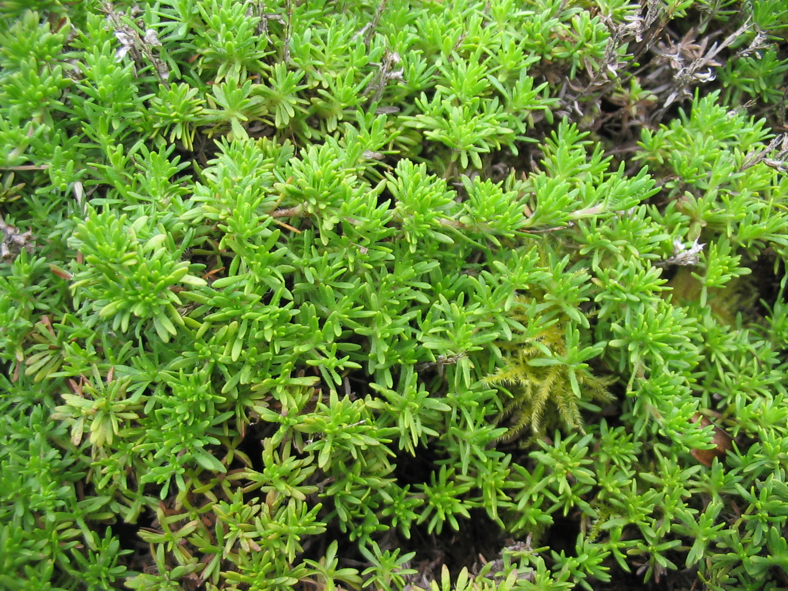 Rasen-Thymian (Thymus caespititius) - Leafs